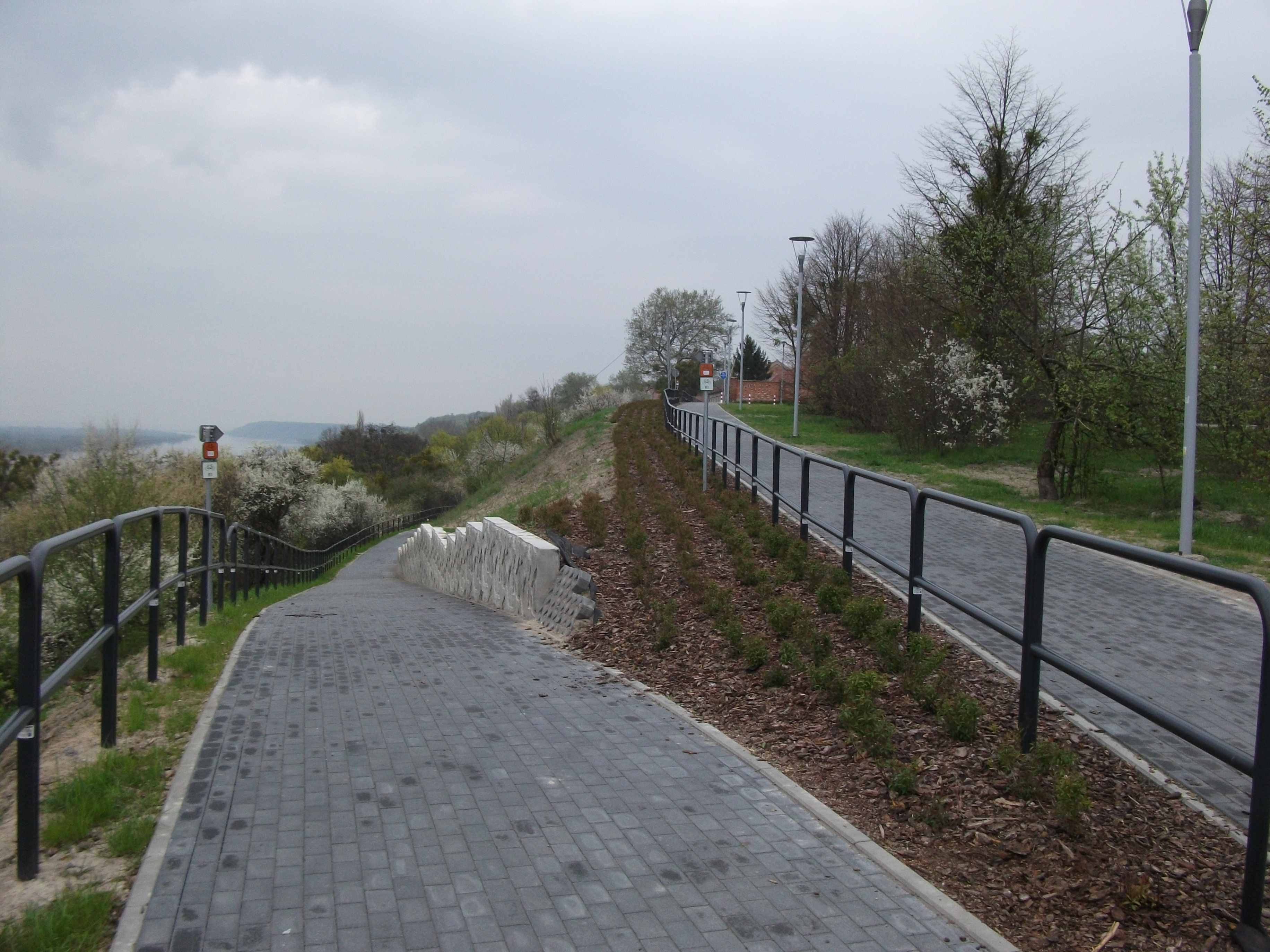 EuroRoute R1 in Grudziądz, Poland